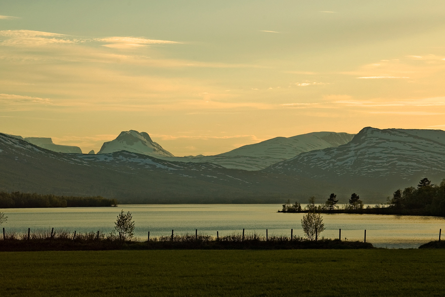 Picture of Ångardsvatnet in Storlidalen, Lønset.